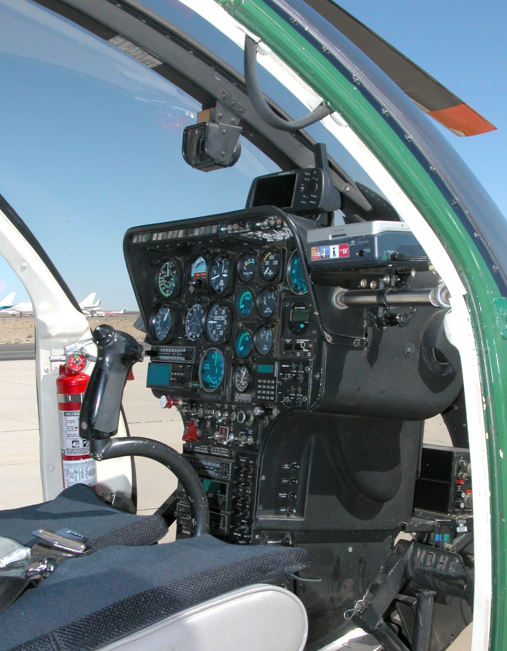 MD 500E cockpit